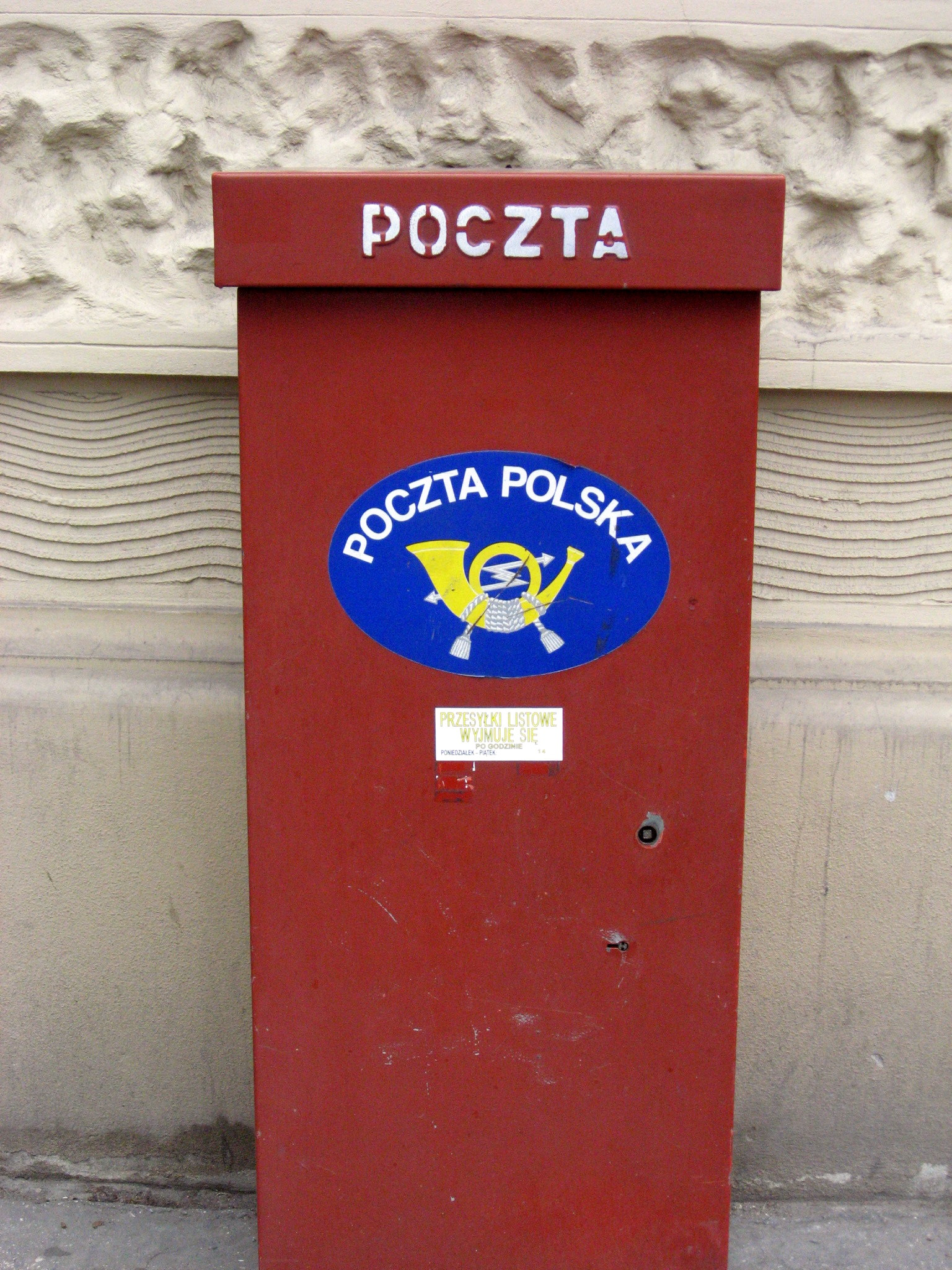 Post box in Kraków, Poland. Poczta Polska operator.